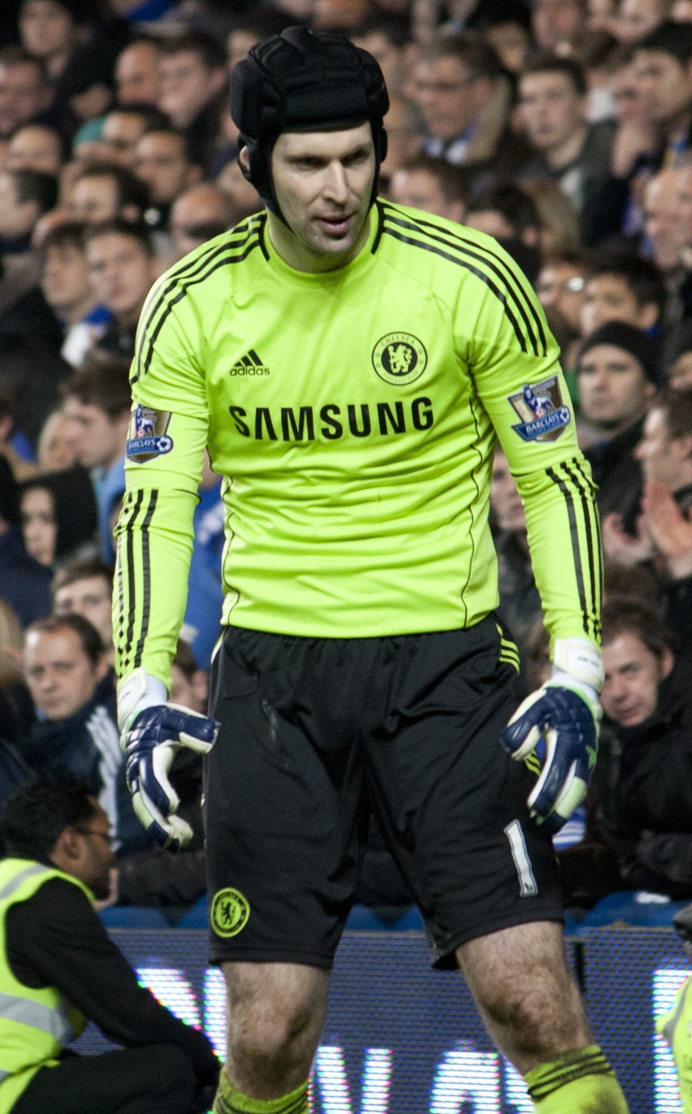 Petr Cech of Chelsea